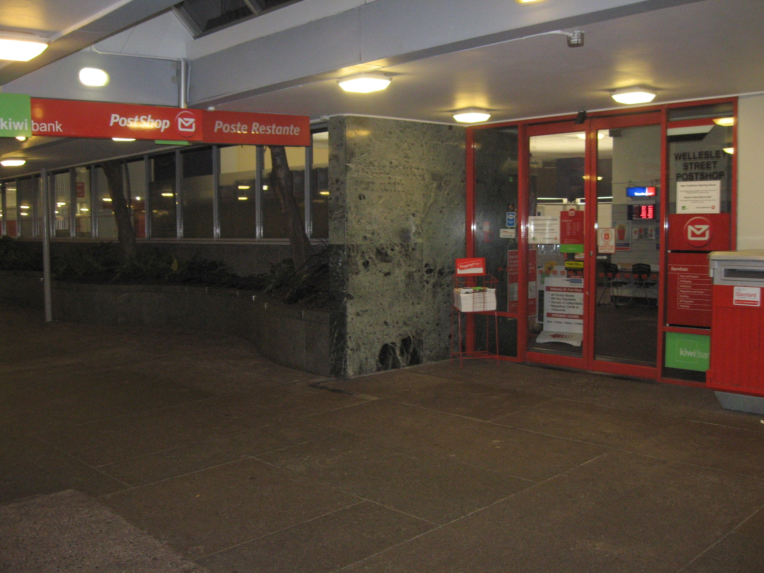 This PostShop in Auckland, New Zealand (near Aotea Square), has poste restante service.